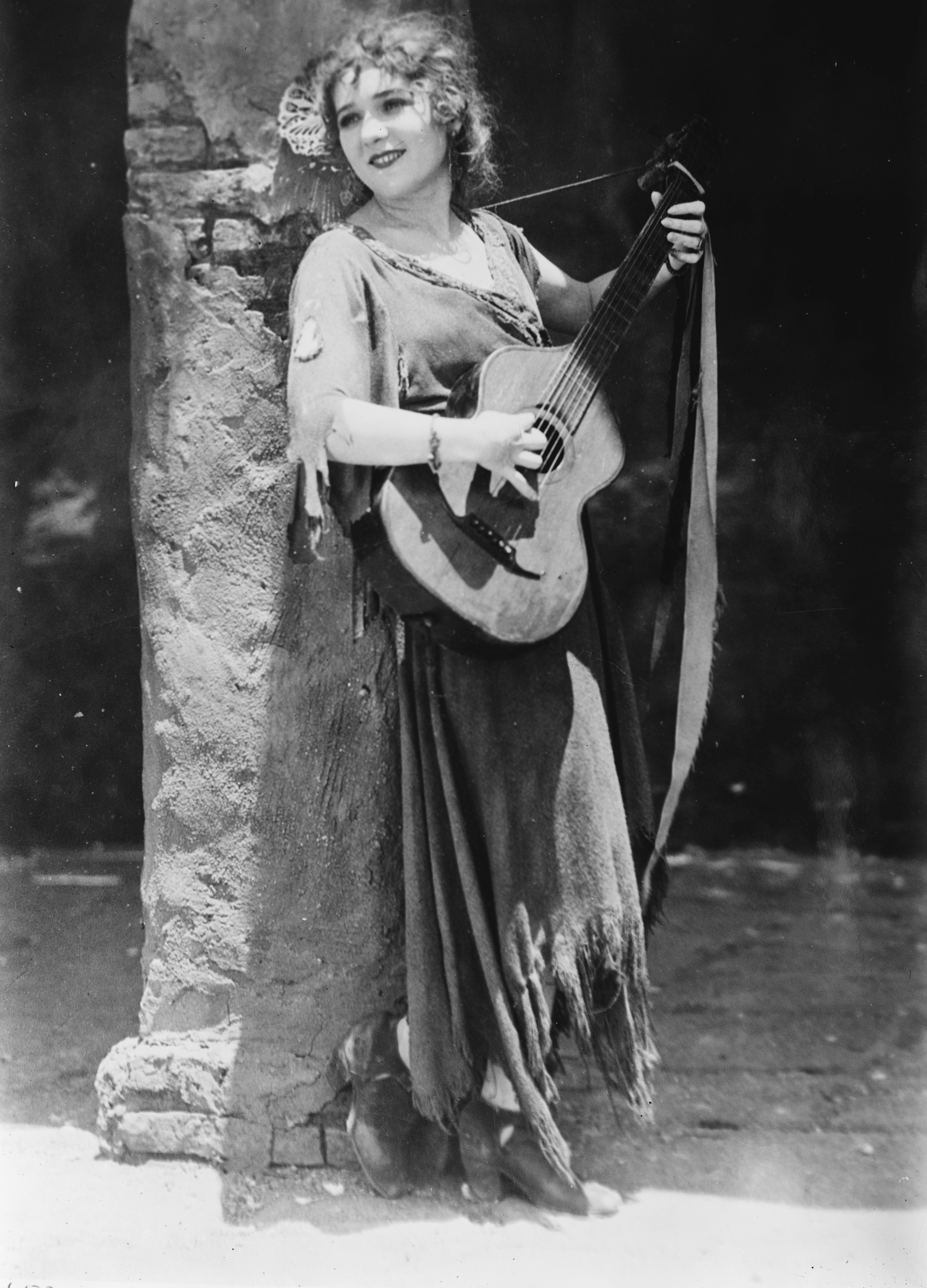 Photo-portrait of actress Mary Pickford standing with guitar. Probably in costume for the film Rosita, by Ernst Lubitsch.